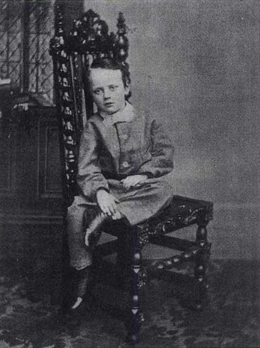 Photograph of a young JJ Thomson. 1861.